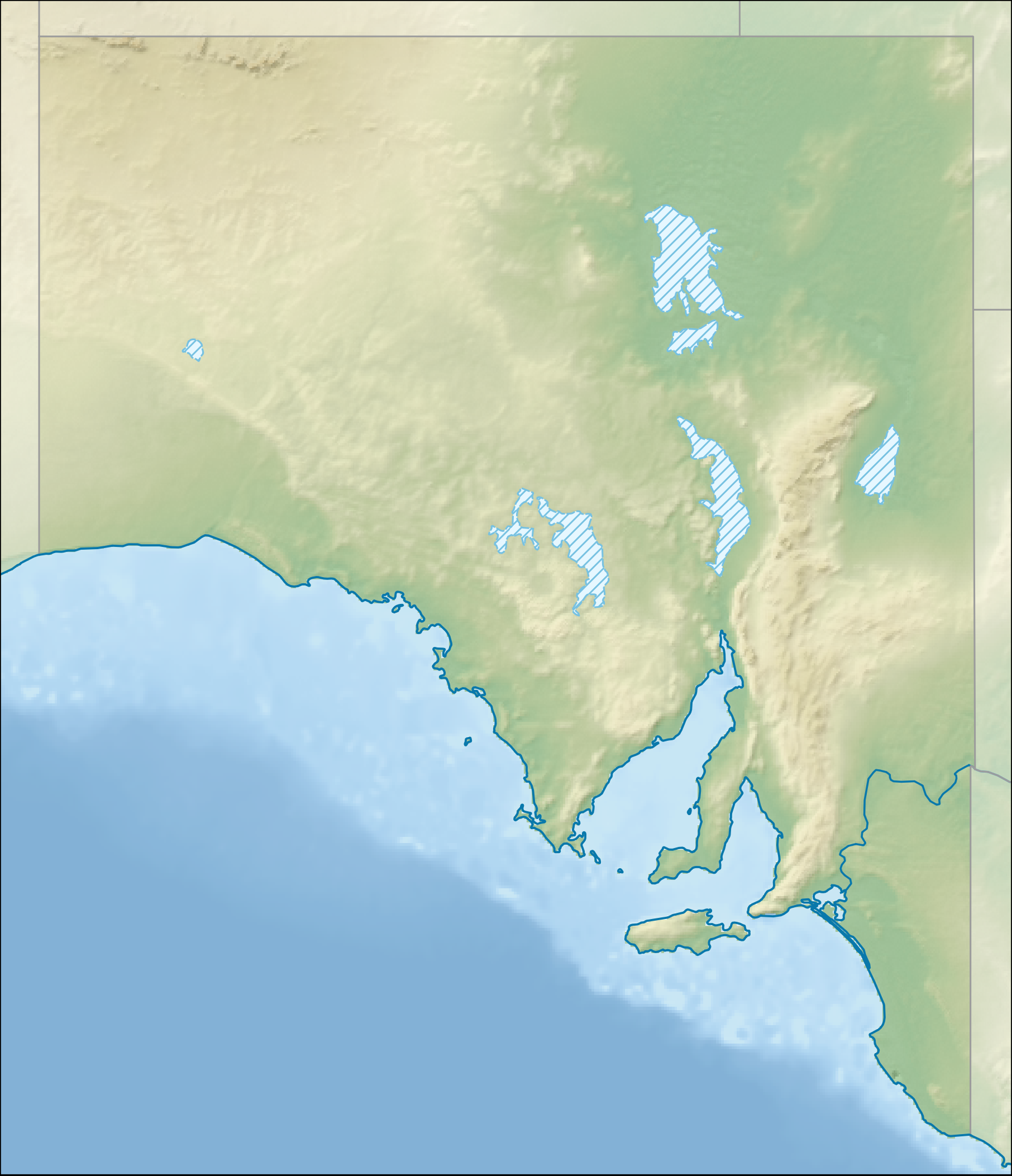 Location map of South Australia, Australia Equidistant cylindrical projection, latitude of true scale 31.27° S (equivalent to equirectangular projection with N/S stretching 117 %). Geographic limits of the map: N: 25.6° S S: 38.5° S W: 128.5° E E: 141.5° E